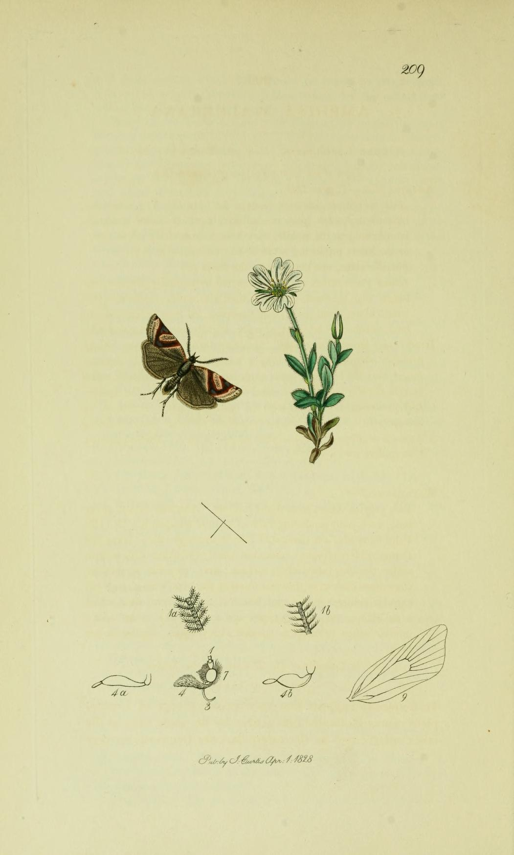 An illustration from British Entomology by John Curtis. Lepidoptera: Amphisa walkerana or Philedonides lunana (Walker’s Lanark Tortrix).